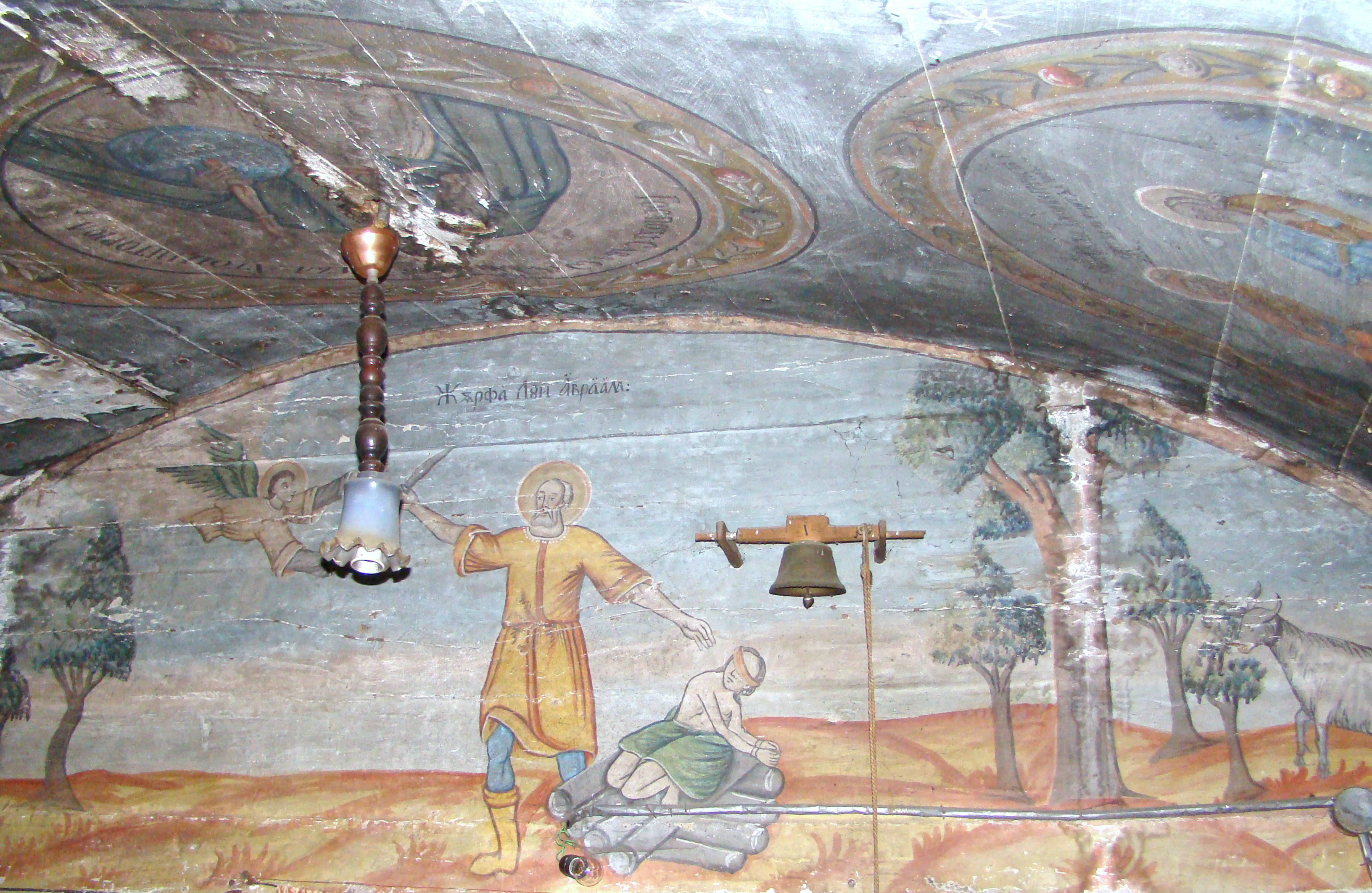 Wooden church in Căzănești, Hunedoara county, Romania